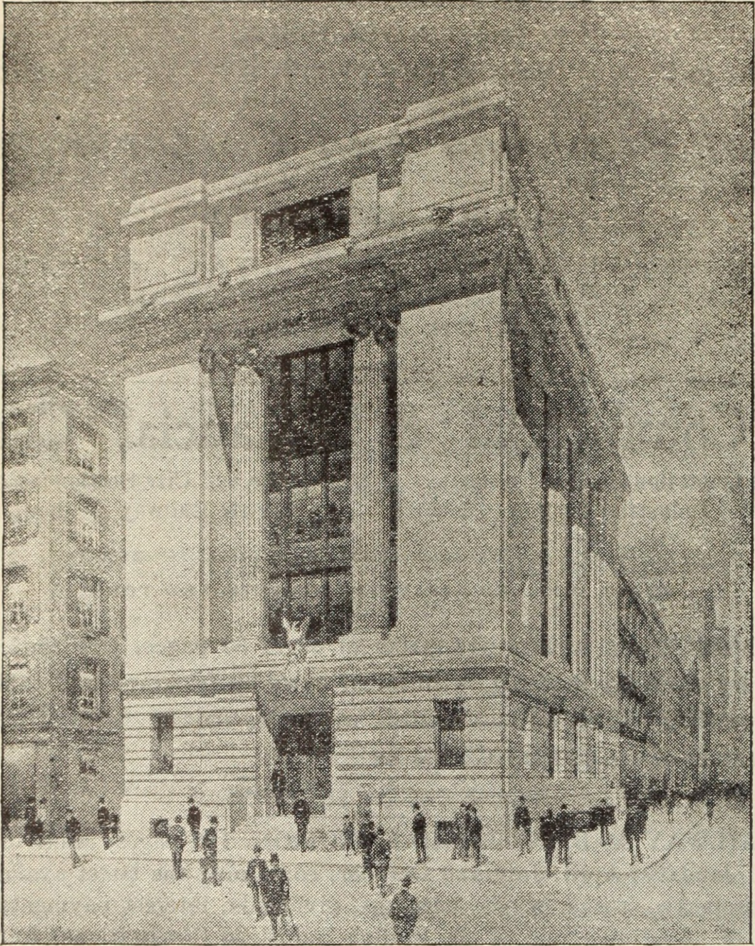 Title: The Commercial and financial chronicle Year: 1908 (1900s) Authors: Subjects: Finance Banks and banking Securities Publisher: New York, W.B. Dana Text Appearing Before Image: I■ lill ! Text Appearing After Image: AMERICAN BANK NOTE COMPANY BROAD & BEAVER STREETS, NEW YORK BUSINESS FOUNDED 1795 ENGRAVERS AND PRINTERS OF BONDS AND STOCK CERTIFICATES And all other documents requiring security; Bank Notes, Bonds, Postage and RevenueStamps for Foreign Governments; Drafts, Checks, Bills of Exchange, Letter Heads, etc. ENGRAVING AND PRINTING Executed in the finest and most artistic style from steel plates, with special safeguards toprevent counterfeiting. Special papers manufactured exclusively for use of this Company. SAFETY COLORS $£ SAFETY PAPERS WORK EXECUTED IN FIRE-PROOF BUILDINGS RAILWAY PRINTING OF ALL DESCRIPTIONS Railway Tickets, Maps, Folders and illuminated Show Cards of the most approved styles.Numbered, Local and Coupon Tickets of any size, pattern, style or device, with steel plate tints. LITHOGRAPHIC AND TYPE PRINTING OF ALL KINDS